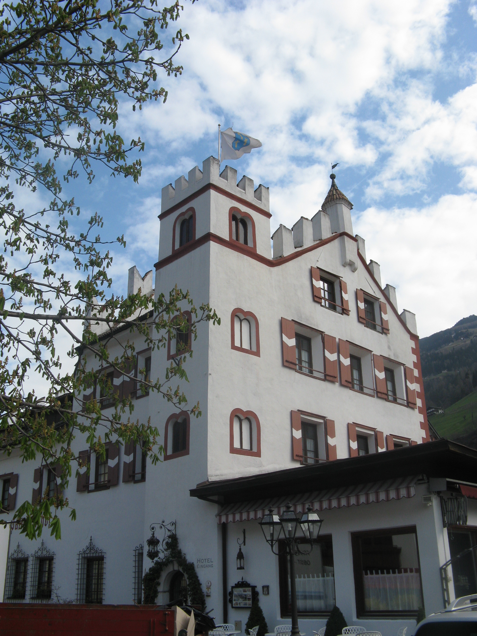 Man at arm's Court Saltaus/St. Martin in Passeier, South Tyrol/Italy